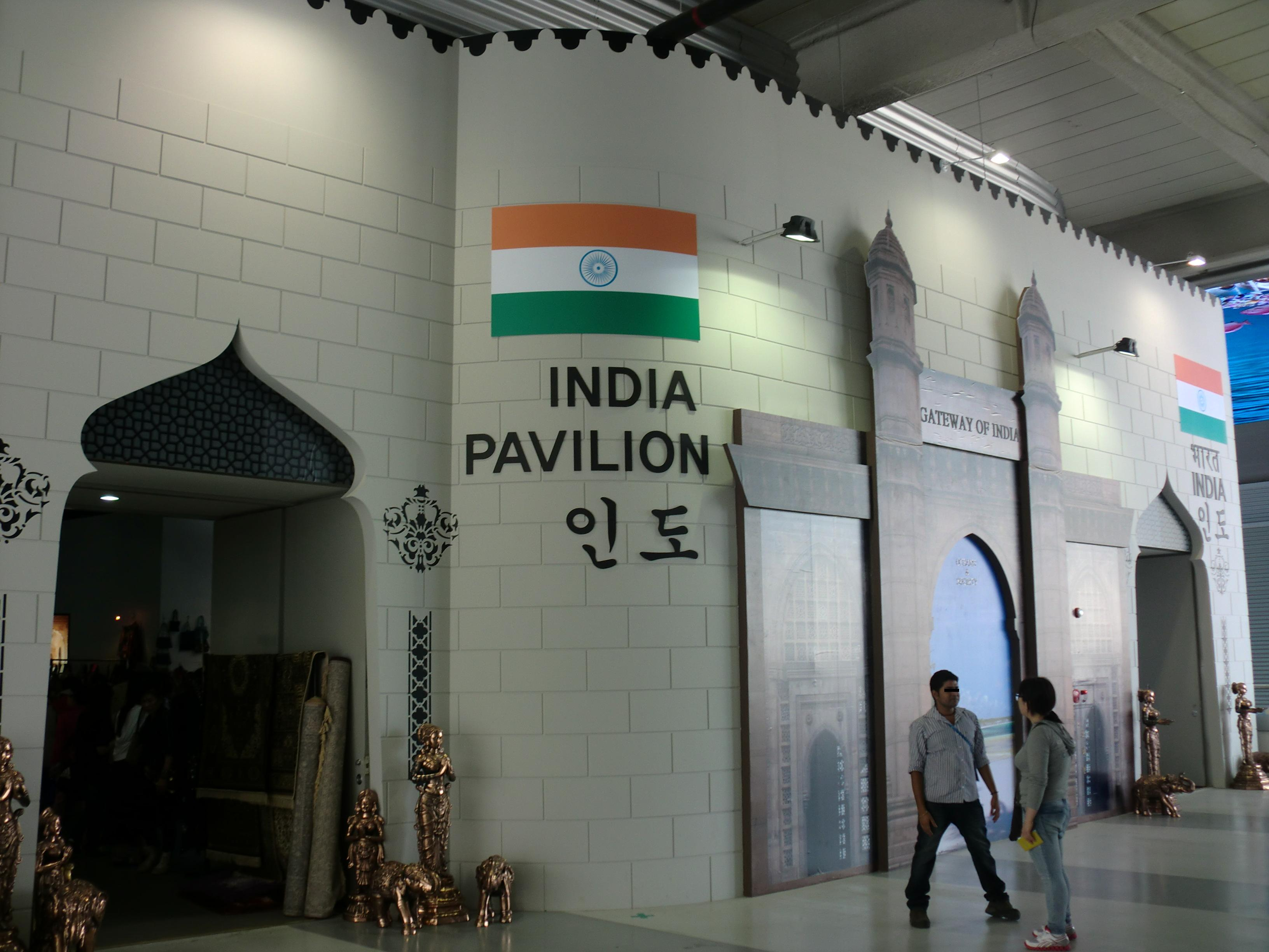 Expo 2012 International pavilion India